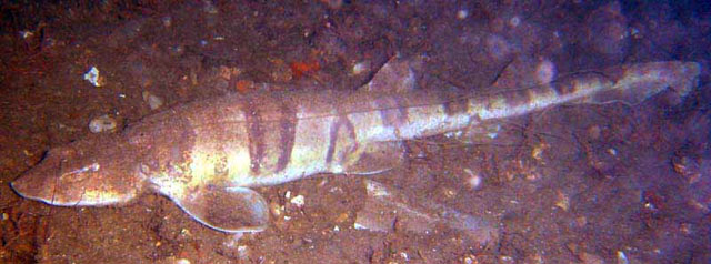 Tiger catshark (Halaelurus natalensis) inside a wreck off Port Elizabeth, South Africa